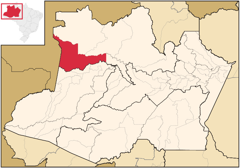 Map of Amazonas highlighting Japurá.